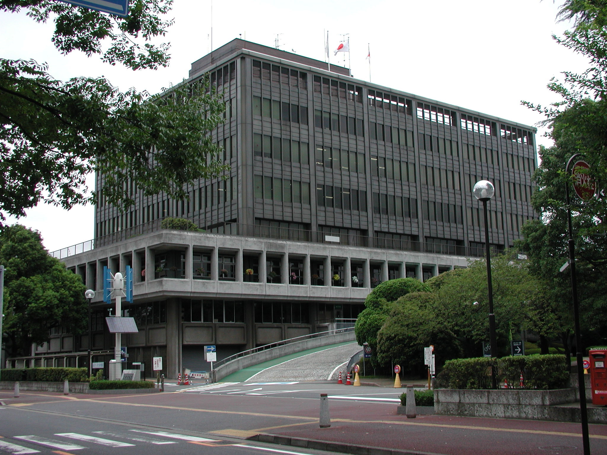 Toda City Office, Saitama, Japan